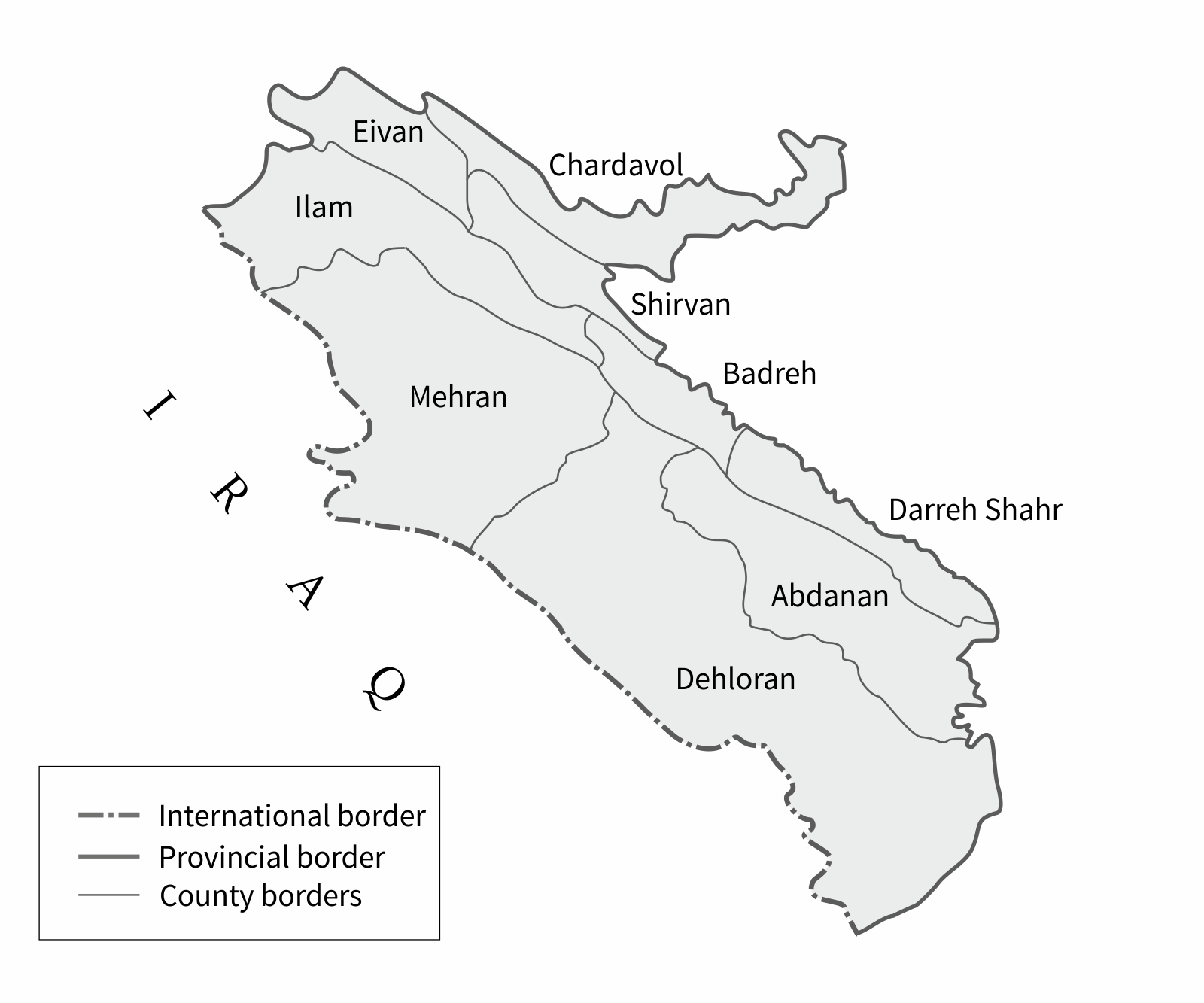 The map shows counties of the Ilam province, Iran.